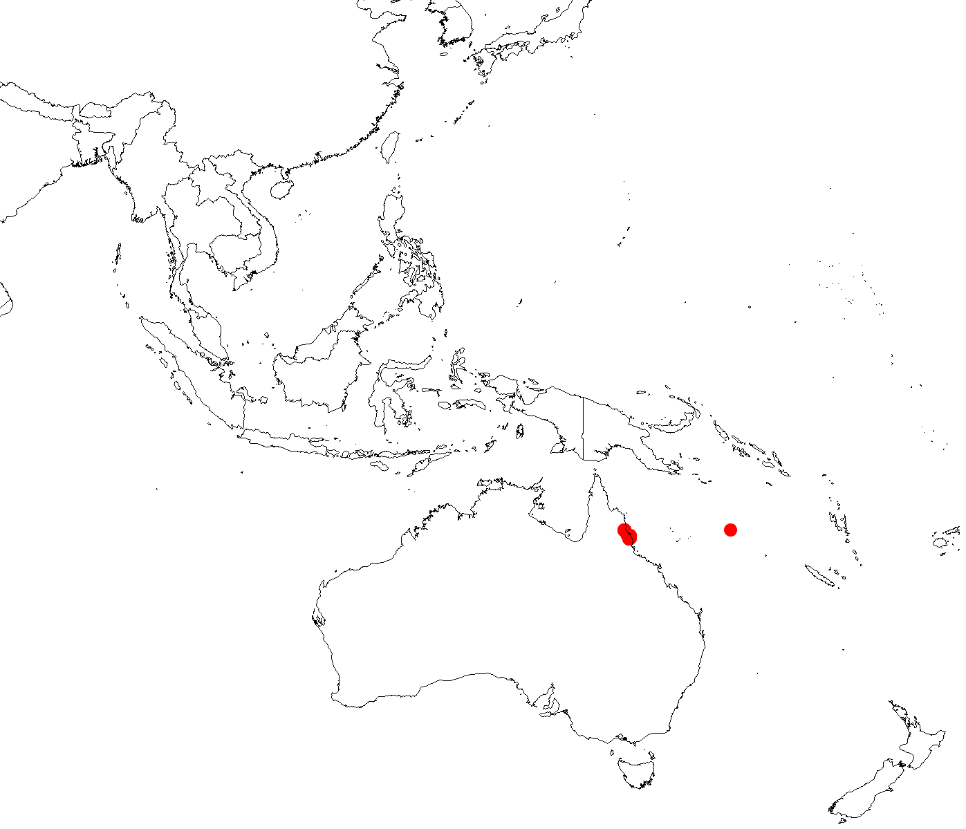 Parsonsia bartlensis Occurrence data downloaded from (21 December 2018) GBIF Occurrence Download